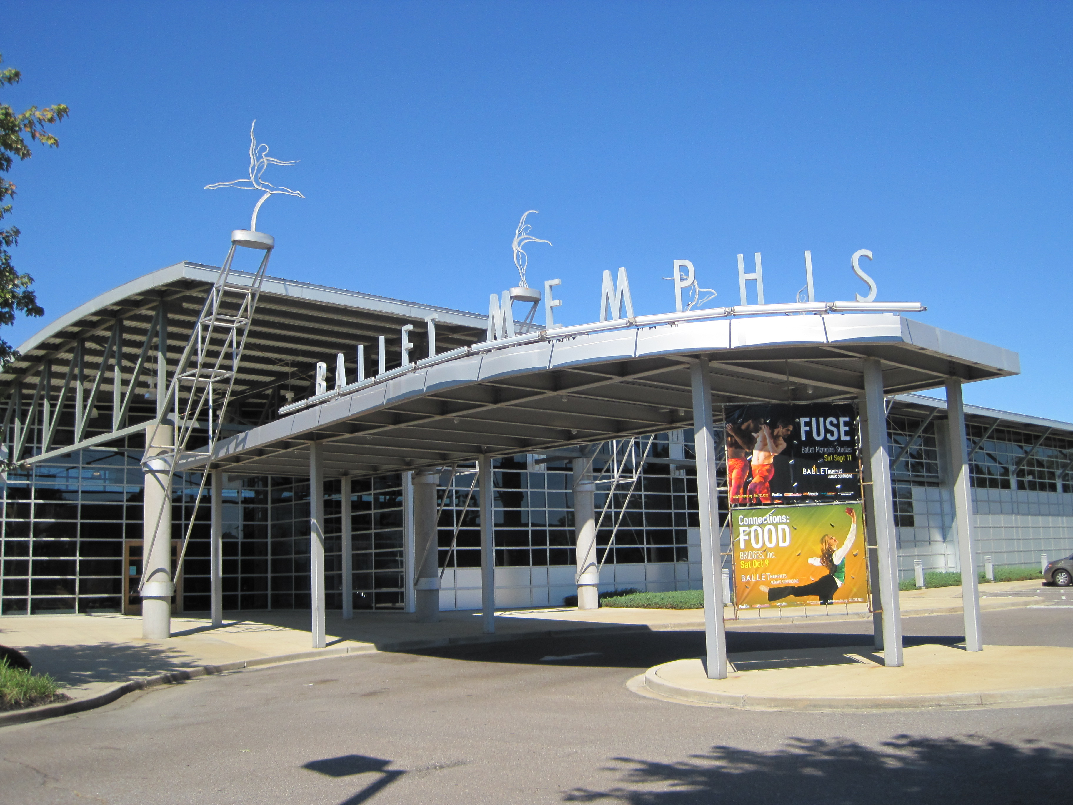 Ballet Memphis on Trinity Road in the Cordova area of Memphis, Tennessee.